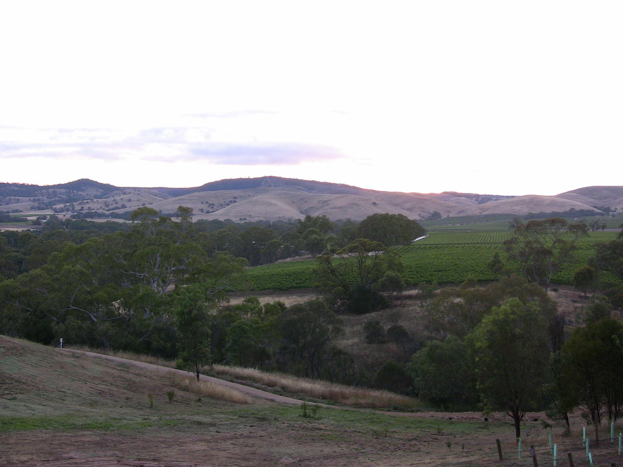 (from author) Rowland Flat, Australia Barossa Valley (Wine Country) Southern Australia 17-Dec-2008